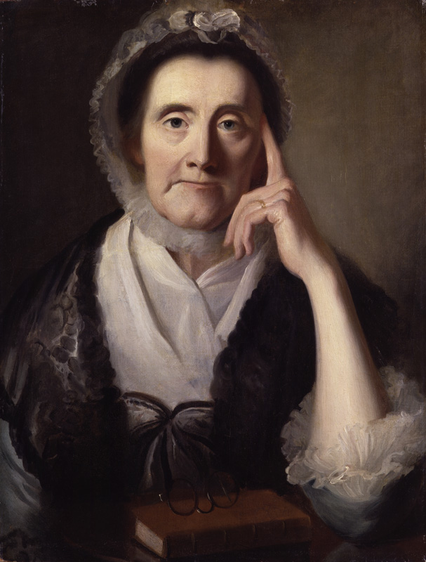 Selina Hastings, Countess of Huntingdon (1707-1791), Friend and benefactor of the Methodist movement.